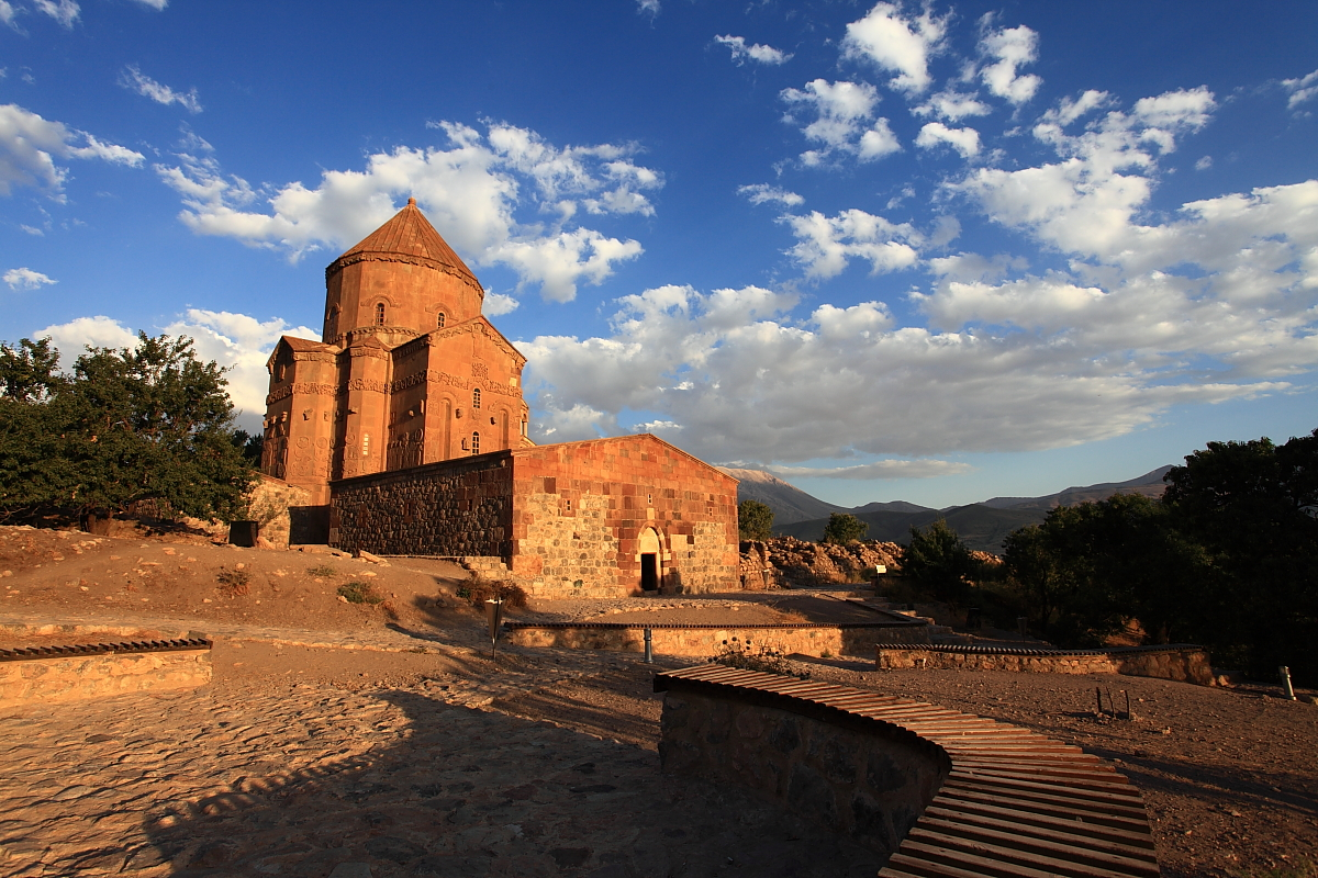 Armenian Church of Aghtamar, Lake of Van, Turkey.